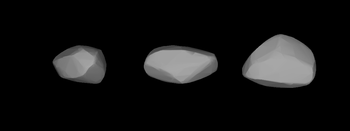 A three-dimensional model of 390 Alma that was computed using light curve inversion techniques.